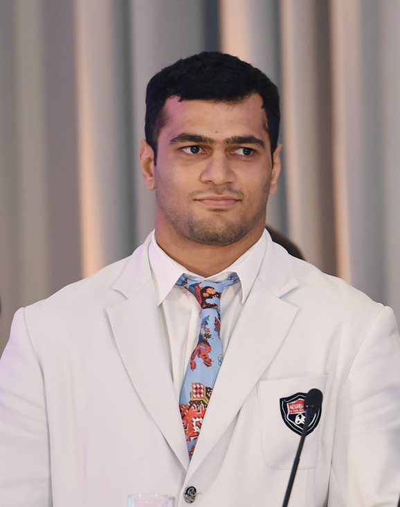 Ilham Aliyev met with athletes who competed in 31st Summer Olympic Games